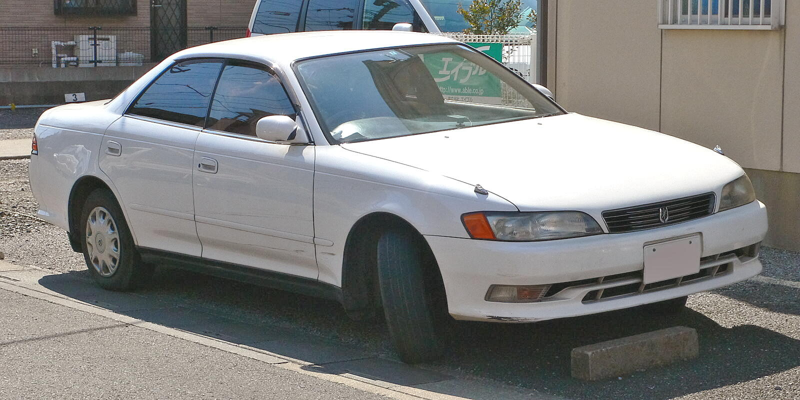 7th generation Toyota_Mark_II (1994/9 - 1996/8)